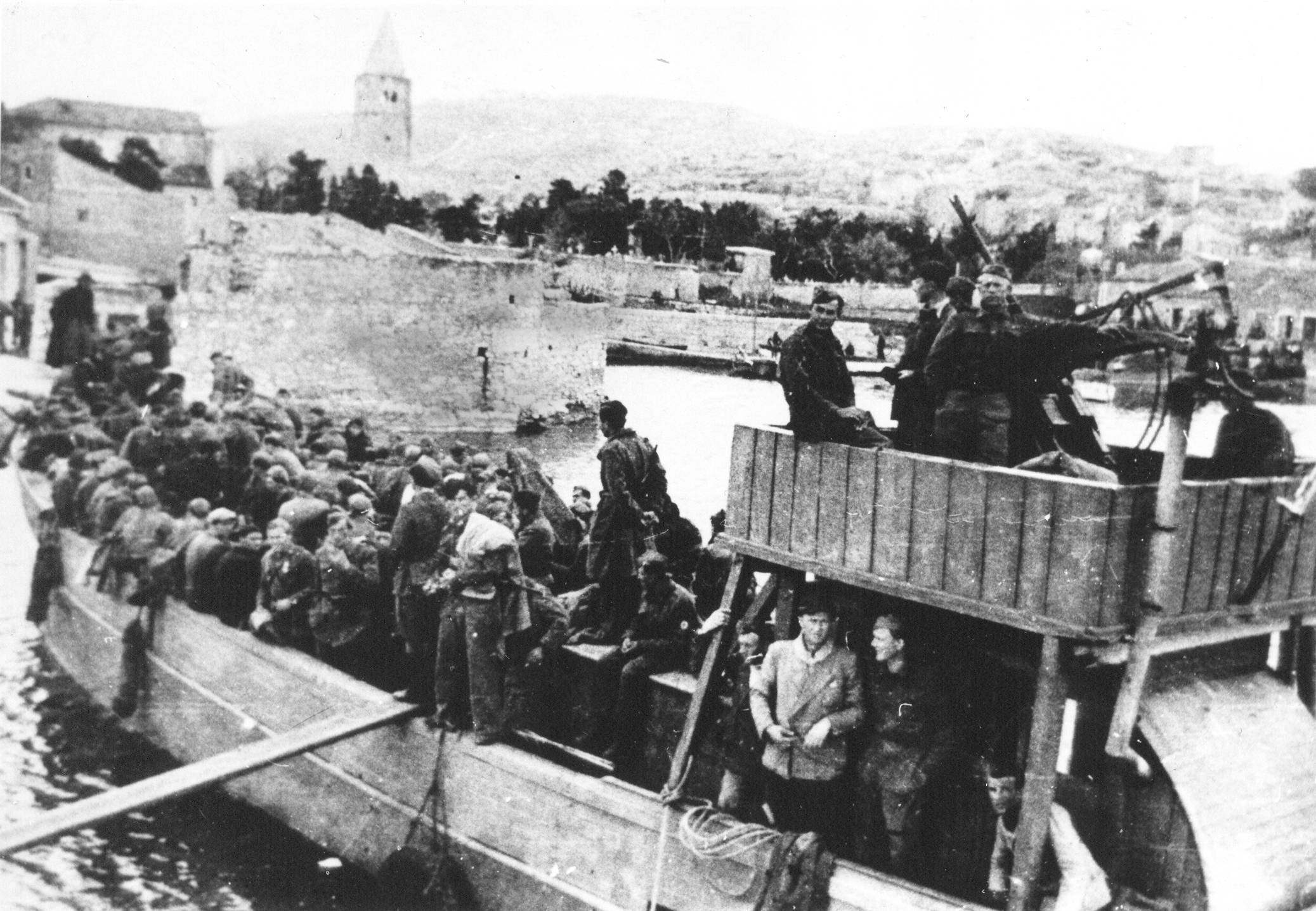 Yugoslav Partisans' raid on Korčula island in April 1944.